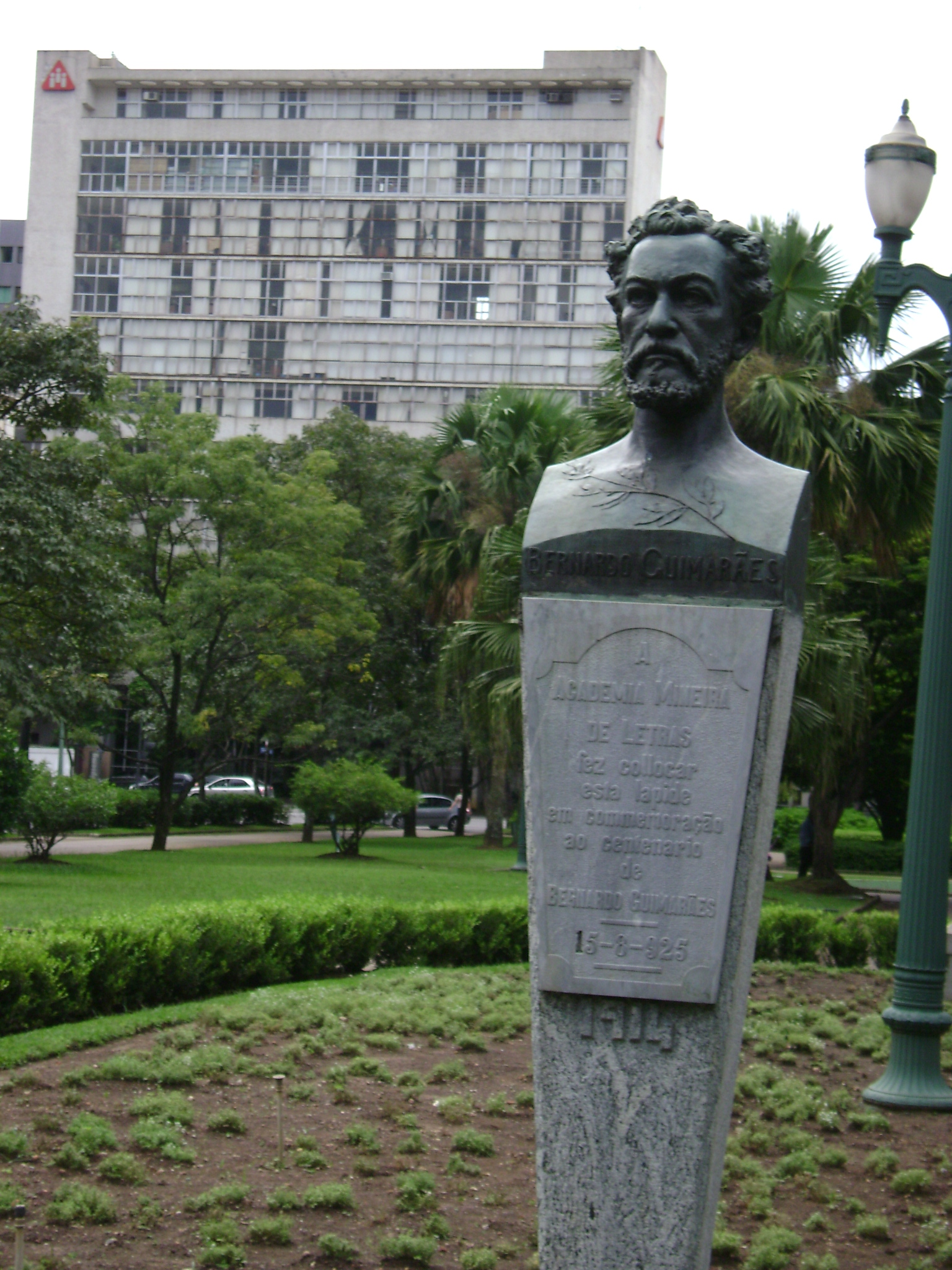 Statue of Bernardo Guimarães in Belo Horizonte.